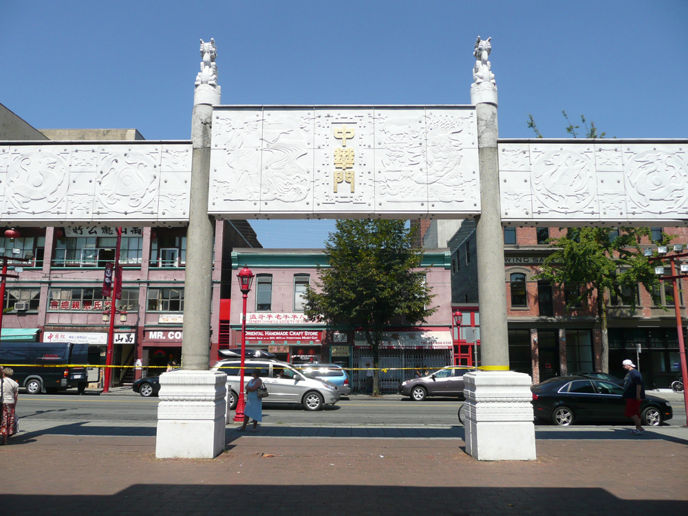 China Gate at the Chinese Cultural Centre in Vancouver's Chinatown.